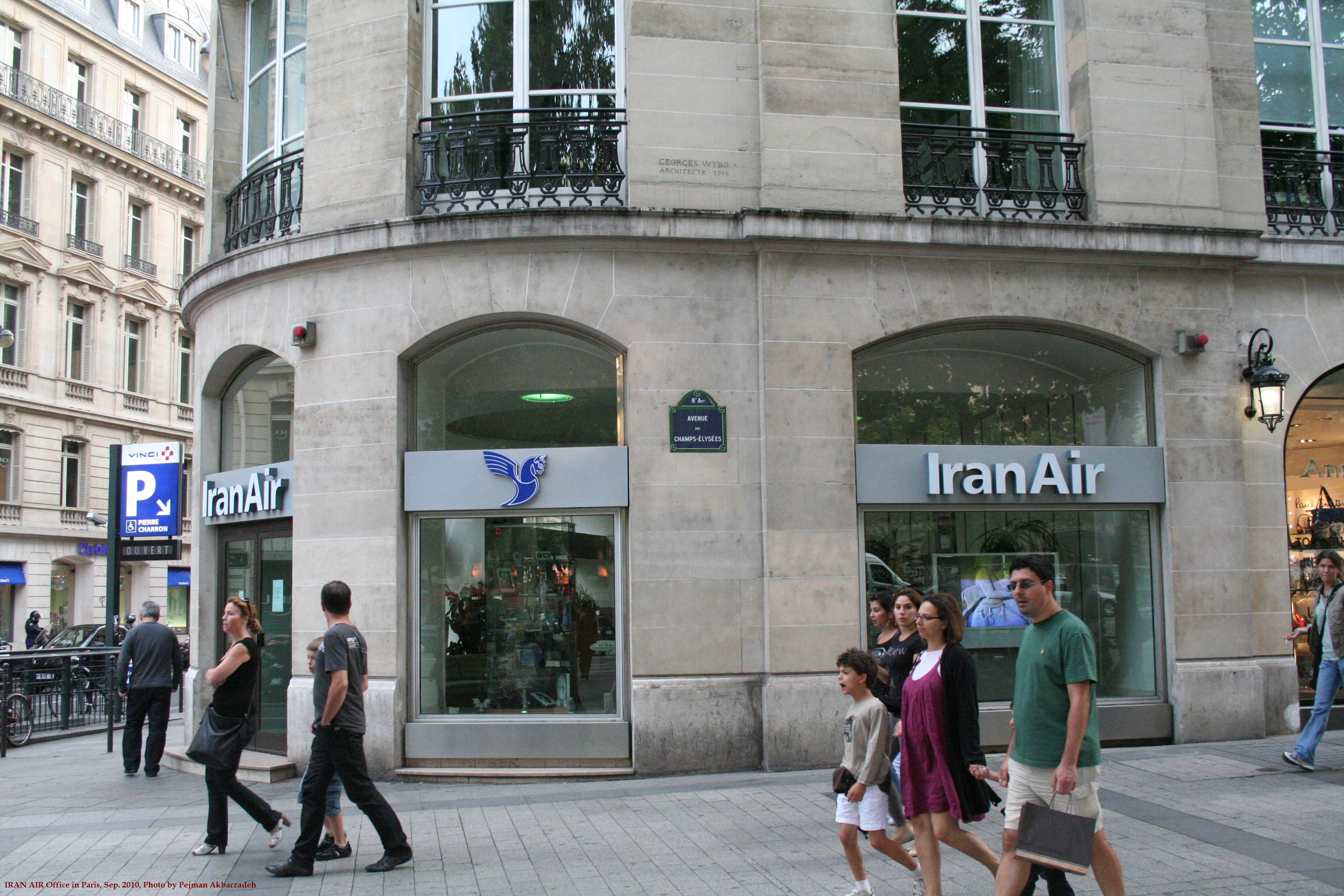 Iran Air office, 63 Avenue des Champs-Elysées, 8th arrondissement, Paris